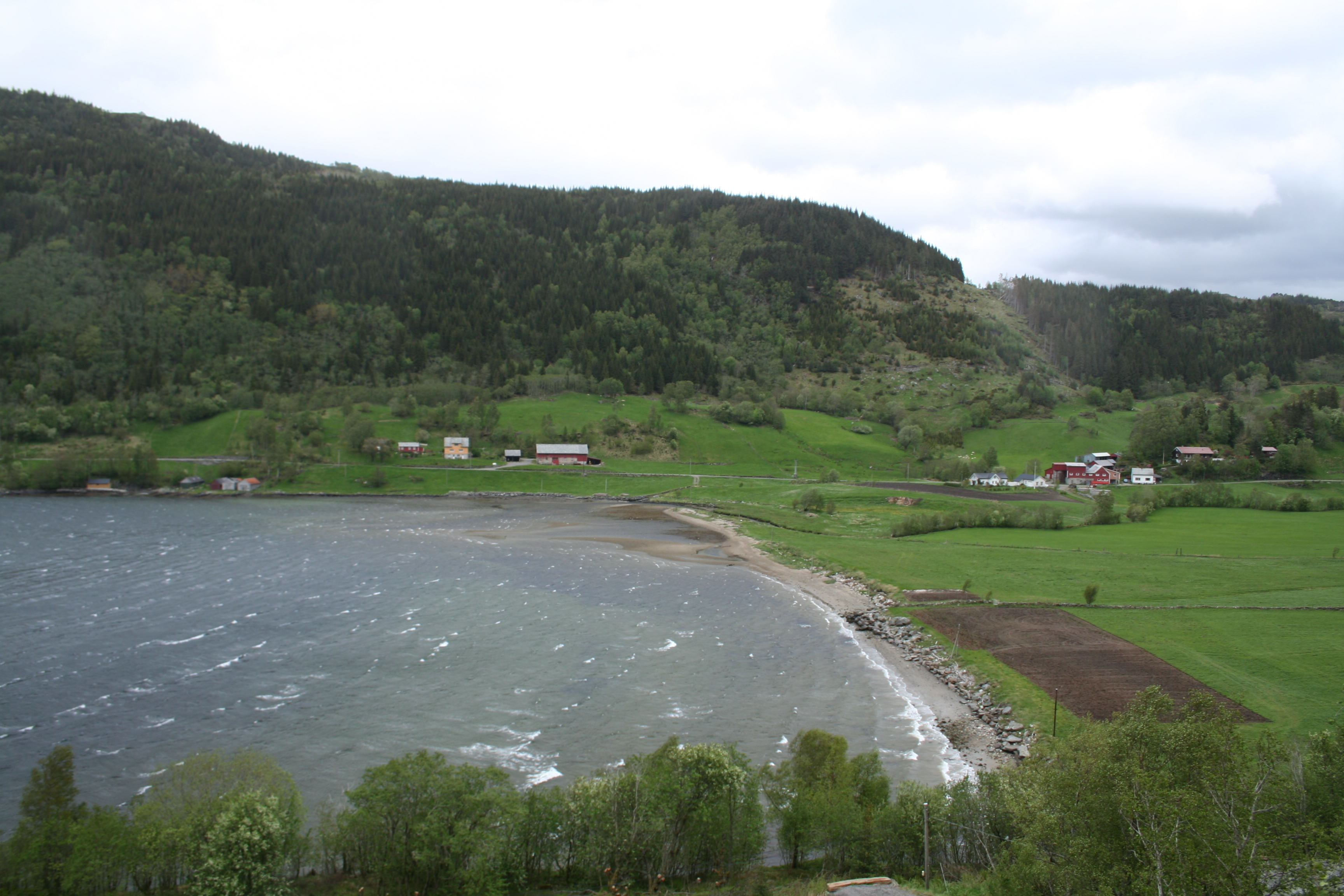 Gjelsvik, as seen from Selvik.